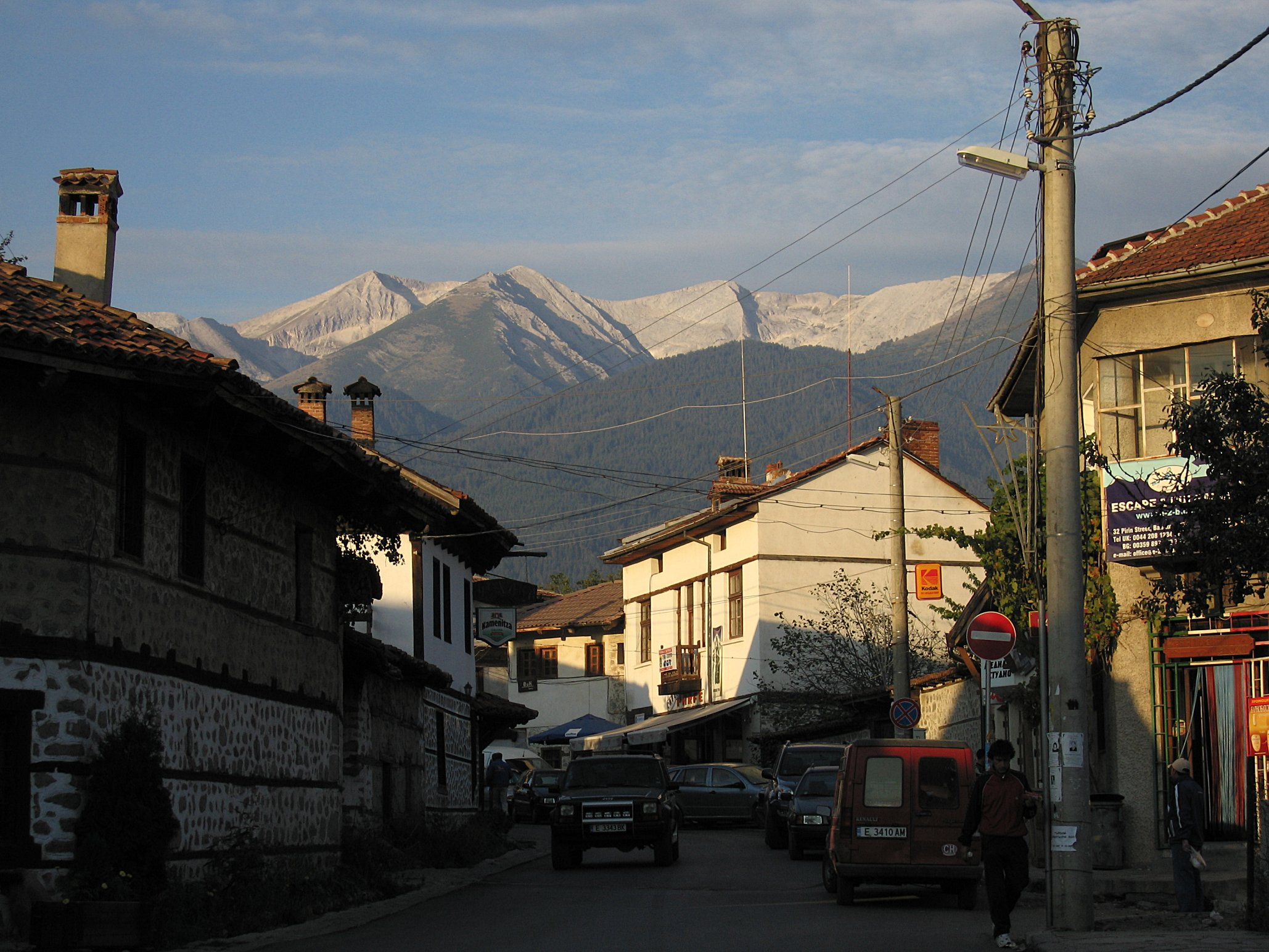 Houses in Bansko, Bulgaria. The Pirin mountains in the backdrop.